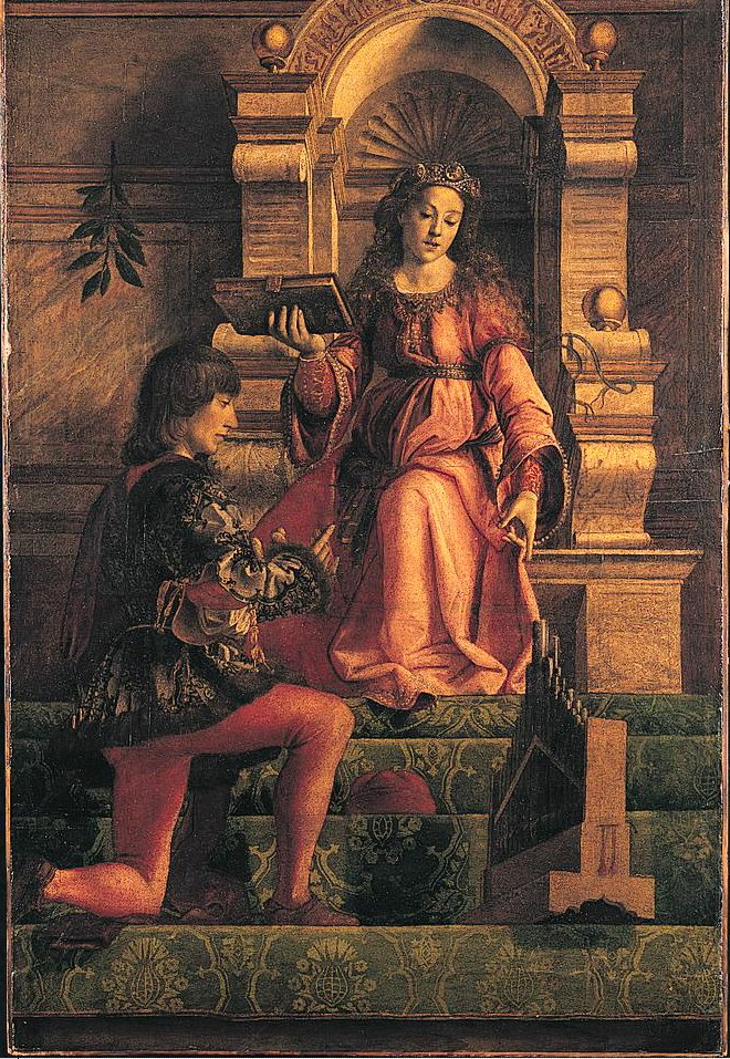 Justus of Ghent (Joos van Wassenhove). Music.